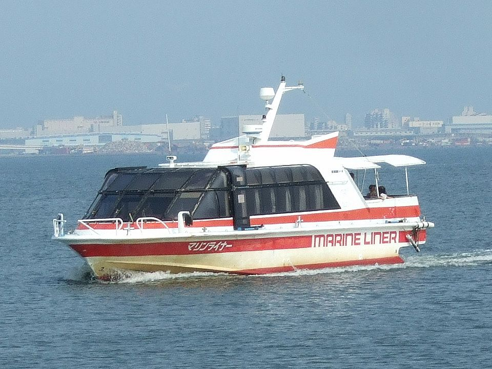 "Marine Liner", the high-speed craft of Yasuda Sangyo Kisen, Japan. / Location:Uminonakamichi Pier, Higashi Ward, Fukuoka City, Fukuoka, Japan.